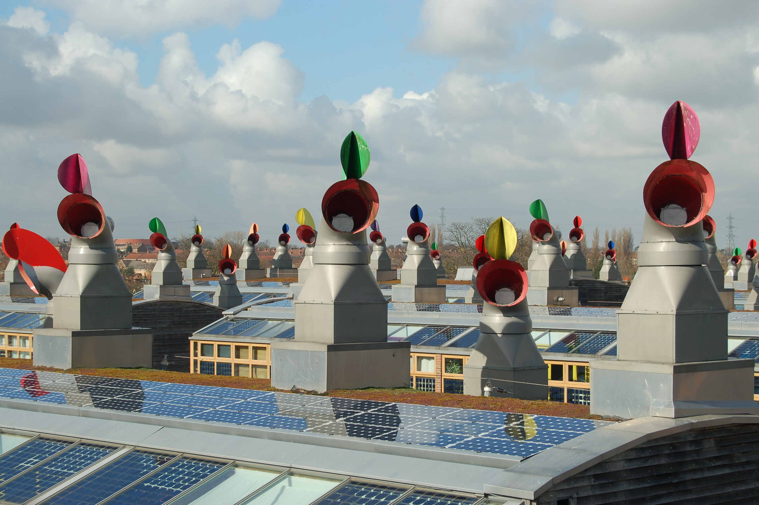 Roofs of the BedZED housing development, London Borough of Sutton, Surrey England. Beddington Corner in the London Borough of Sutton at Hackbridge: The BedZED estate BedZED stands for Beddington Zero Energy Development and is the UK's largest and first carbon-neutral eco-community. It was developed by the Peabody Trust and has won numerous awards. The buildings are constructed of materials that store heat during warm conditions and realease heat at cooler times, and where possible, they have been built from natural, recycled or reclaimed materials. The first residents moved in during March 2002, and these houses are on Helios Road. BedZED receives power from a small-scale combined heat and power plant (CHP). In conventional energy generation, the heat that is produced as a by-product of generating electricity is lost. With CHP technology, this heat can be harnessed and put to use. At BedZED, the heat from the CHP provides hot water, which is distributed around the site via a district heating system of super-insulated pipes. Should residents or workers require a heating boost, each home or office has a domestic hot water tank that doubles as a radiator. The CHP plant at BedZED is powered by off-cuts from tree surgery waste that would otherwise go to landfill. Wood is a carbon neutral fuel because the CO2 released when the wood is burned is equal to that absorbed by the tree as it grew. For more information the BedZED website is here